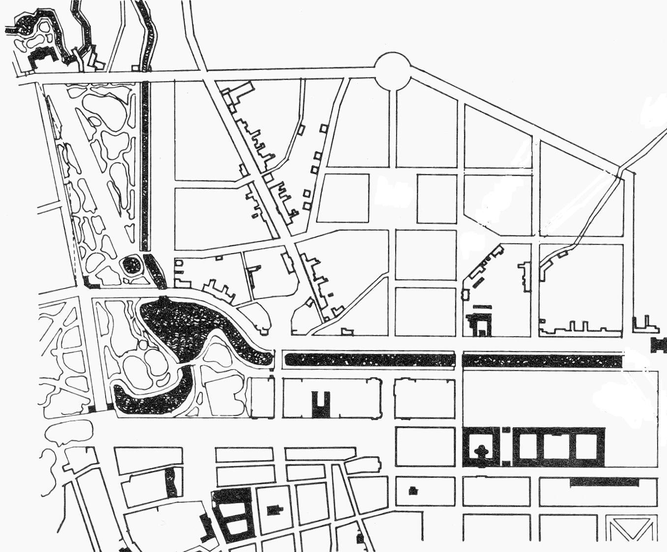 t